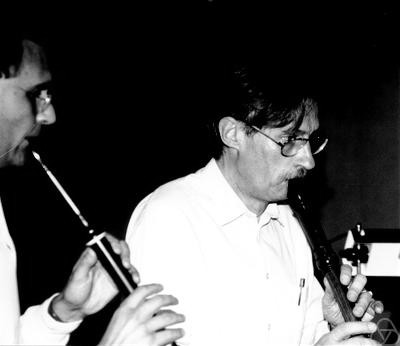 Picture of Eduard Wirsing